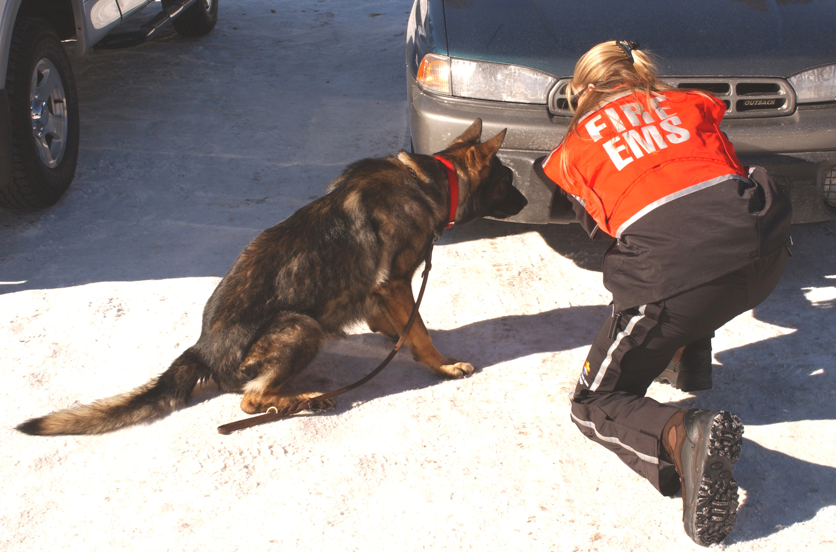 New York, NY, February 12, 2002 -- The Westminster Kennel Club last night honored the canine heroes of 9-11during the club's 126th Dog Show in a ceremony at Madison Square Garden. But the work of these canines goes on. Nikko, a trained explosives detection dog, works with Shawn Winder of the Park City Fire District on a mock explosives exercise in Solitude, UT, at the Winter Olympics. Photo by Andrea Booher/ FEMA News Photo